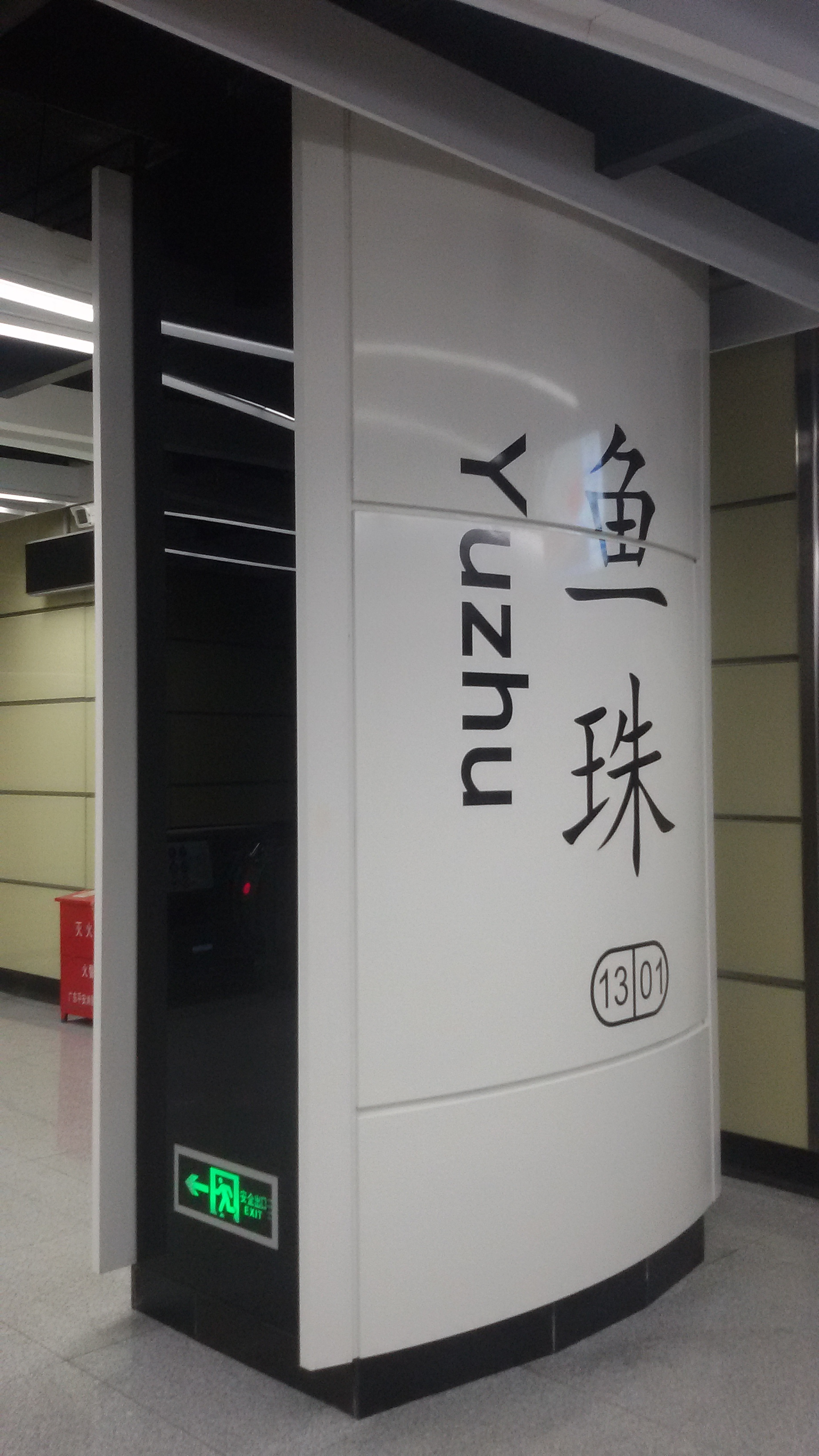 WORD on PILLAR for Yuzhu Station at Line 13 in Guangzhou Metro